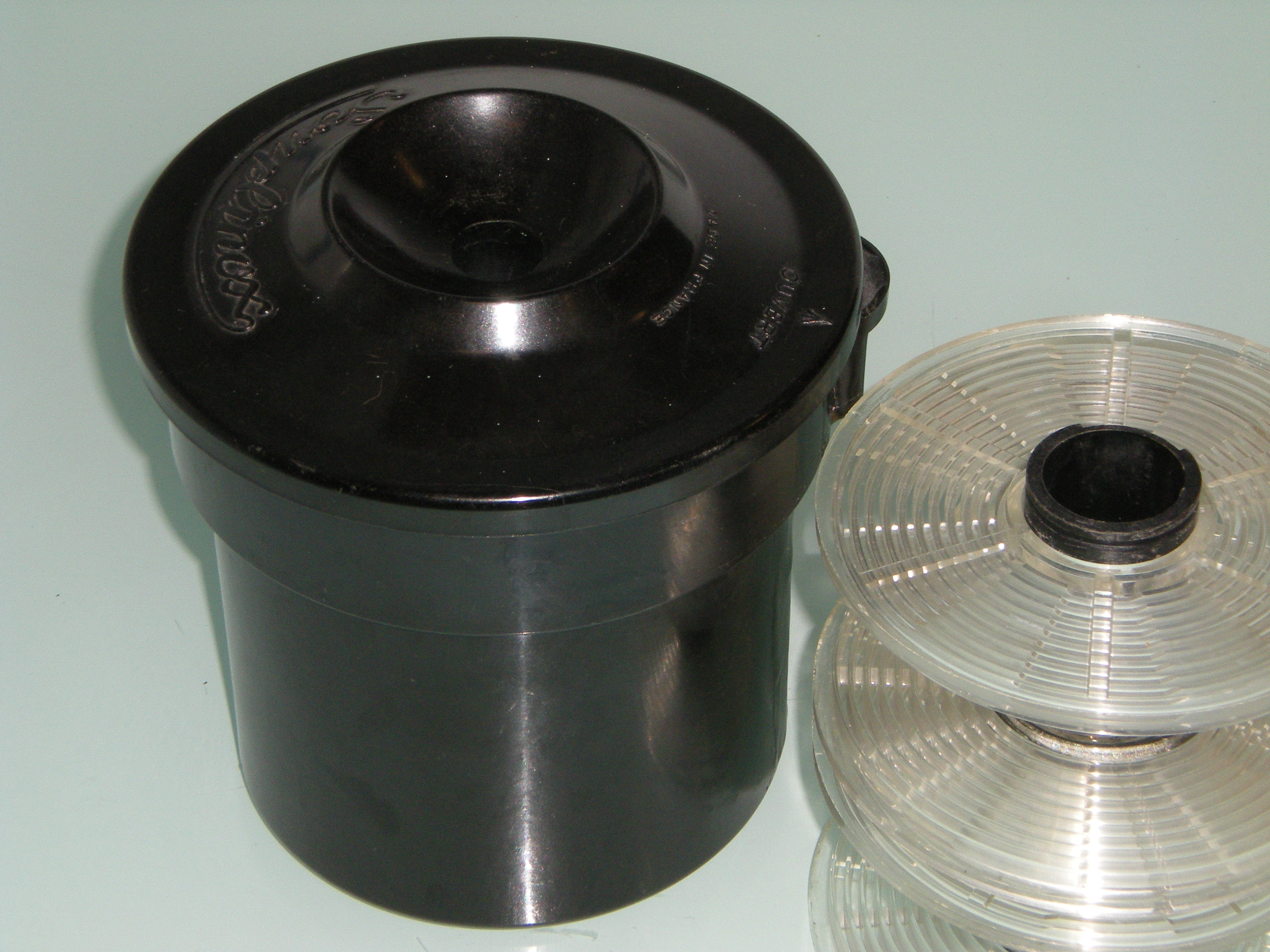 Film development tank made in the 1950's.